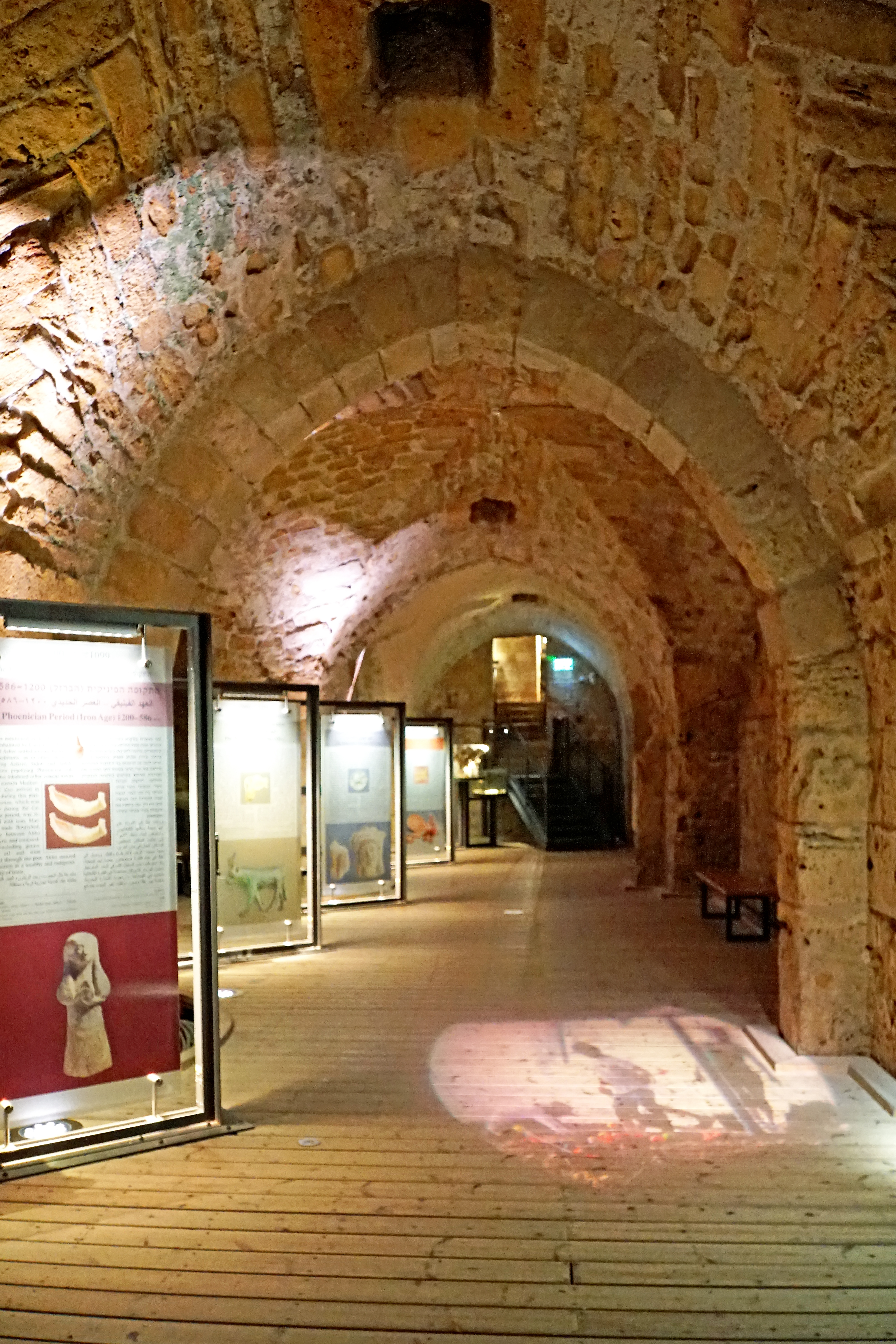 In the prison hall are artifacts from various time periods. The artifacts date from 3000 B.C. (Bronze Age) to 324 A.D. (Roman Period).